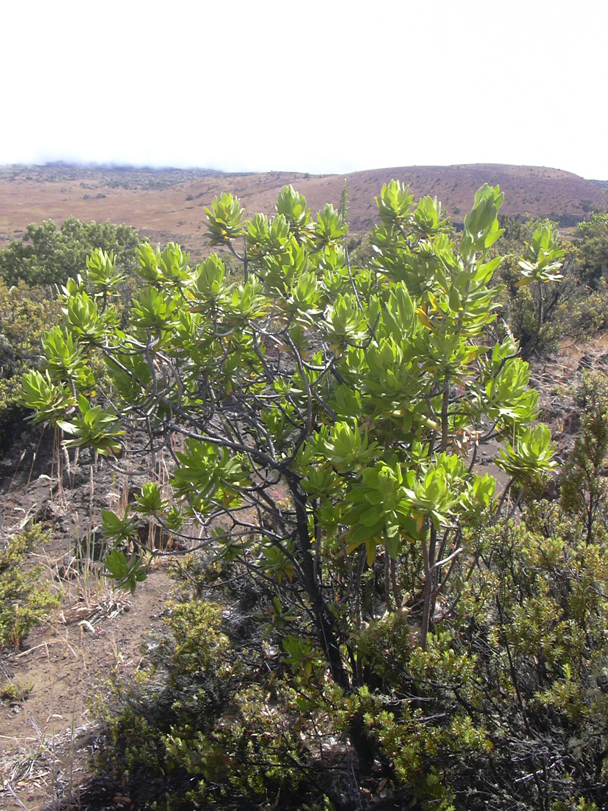 Dubautia arborea (habit). Location: Hawaii, Puu Kole